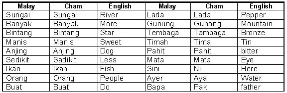 Table of Cham & Malay languages.